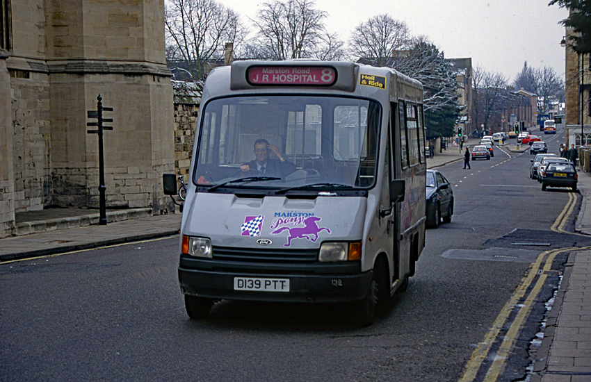 Thames Transit Ford Transit Mellor, registration D139 PTT, with Marston Pony branding. Scanned from a Fujichrome 35mm slide.